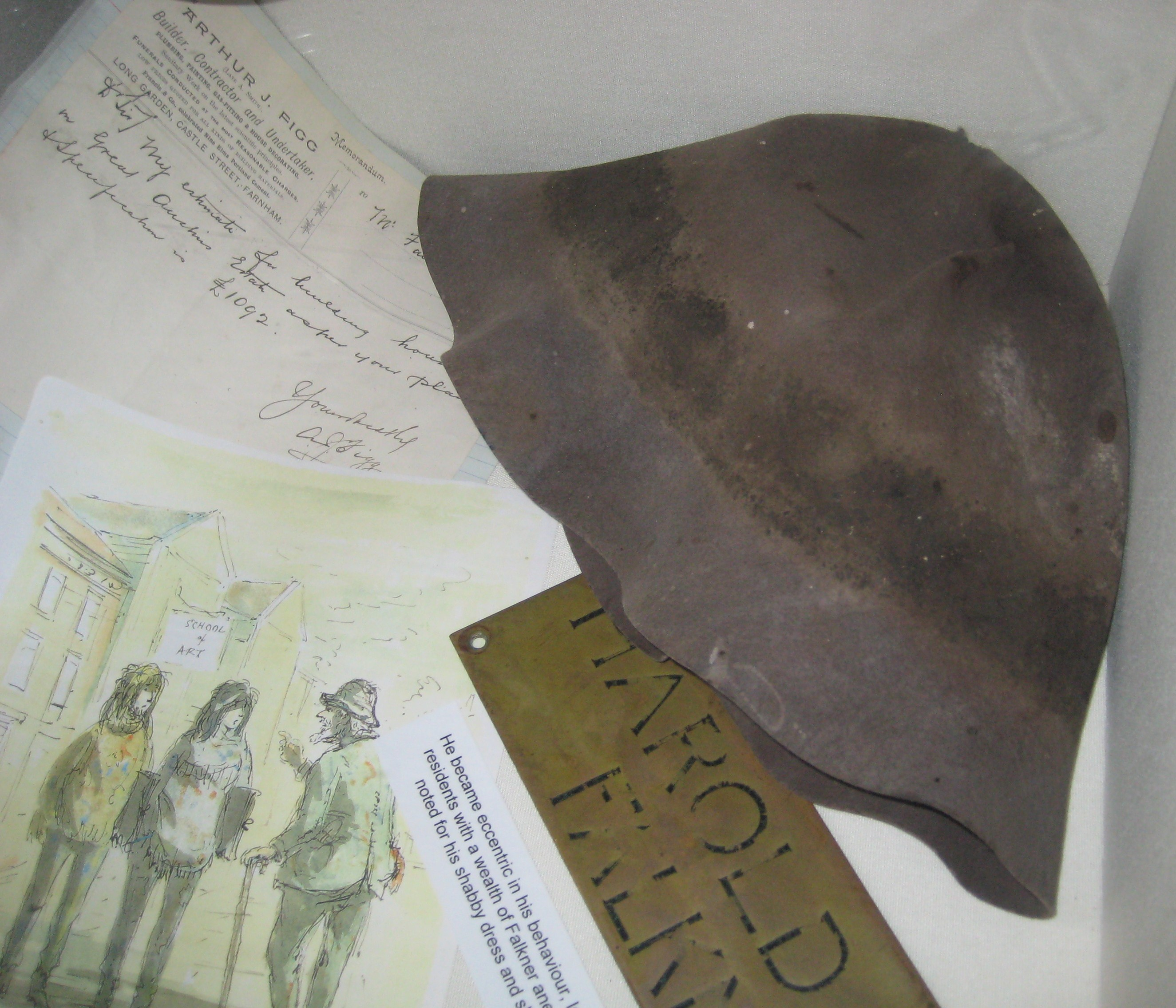 The notoriously shabby hat of architect Harold Falkner (1875-1963); in the background is part of a sketch of Falkner wearing the hat by John Verney (1913-1993)